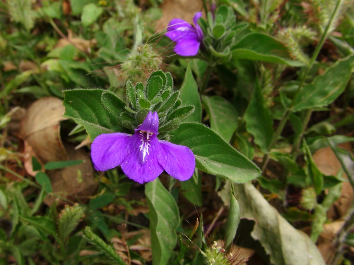 Justicia carthaginensis. Costa Rica, prov. Guanacaste, Hacienda Guachipelin at the foot of Rincon de la Vieja, aside of path to mirador.